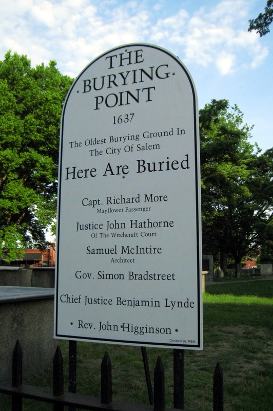 Oldest burying ground in Salem, MA